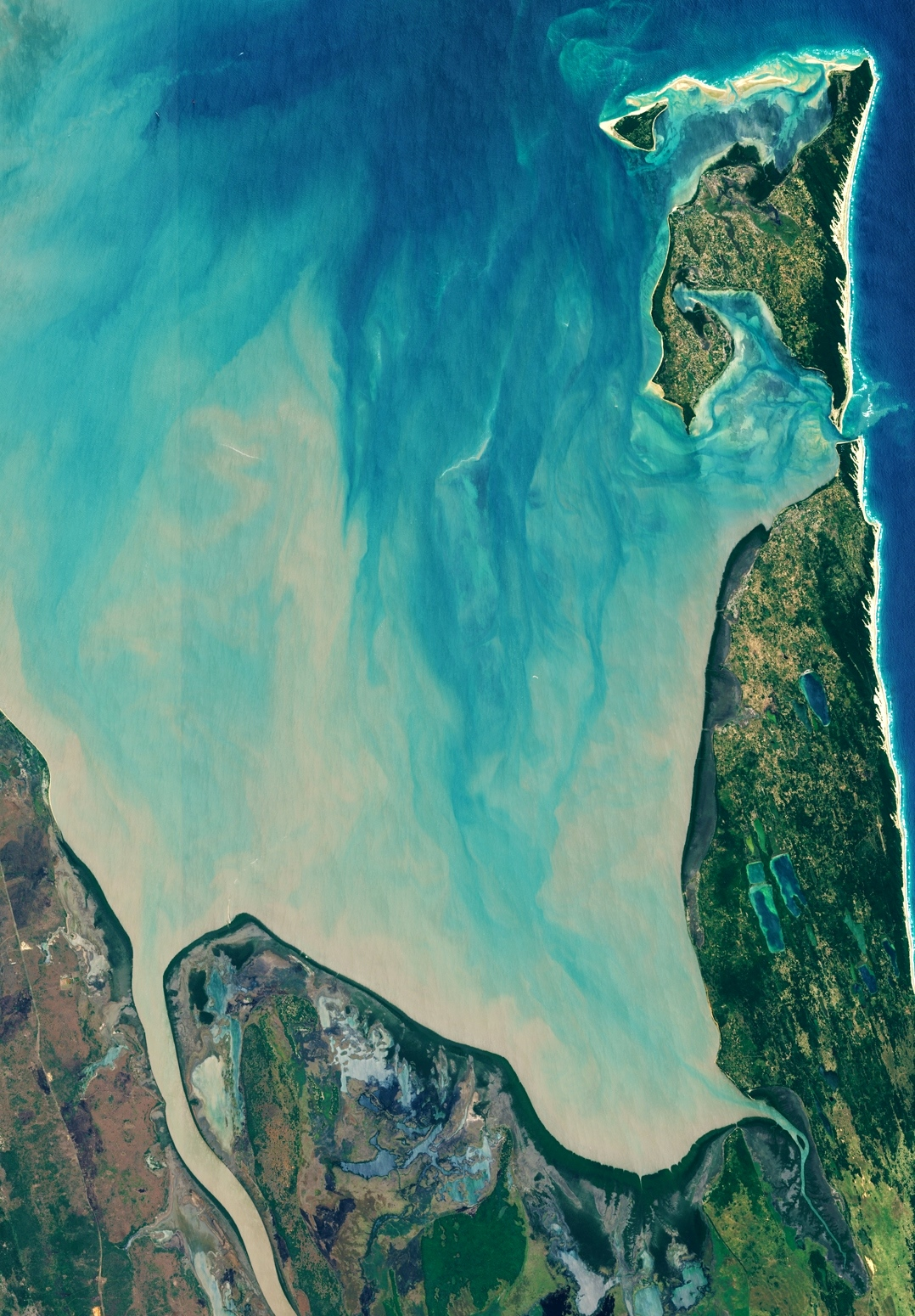 Captured by the Copernicus Sentinel-2 mission, this image shows the southern perimeter of Maputo Bay, with the lagoon of the Great Usutu River, the Maputo Special Reserve on its right bank, and Machangulo Peninsula and Inhaca Island at right and top right respectively.